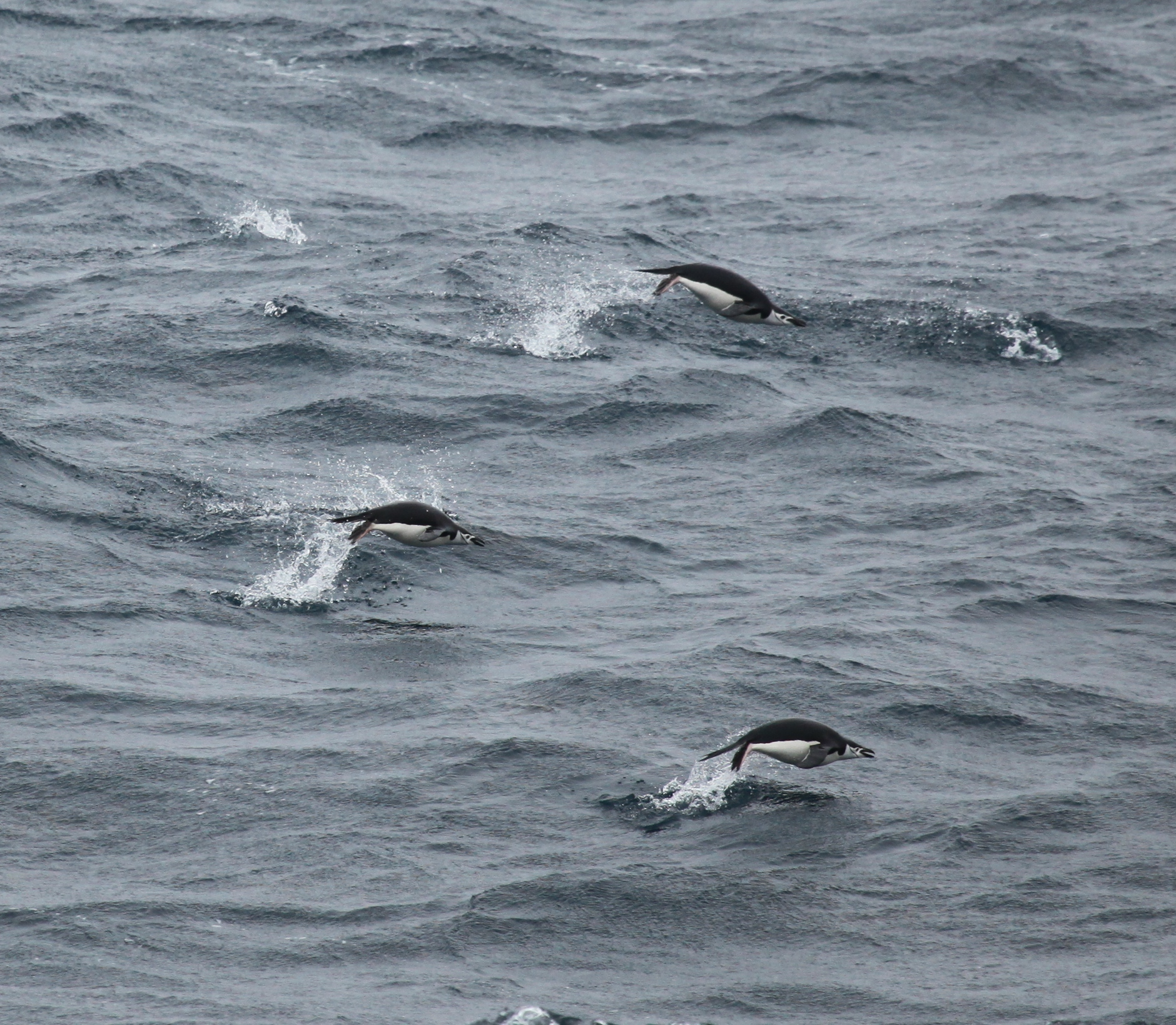 In the Southern Ocean, near the South Orkney Islands.